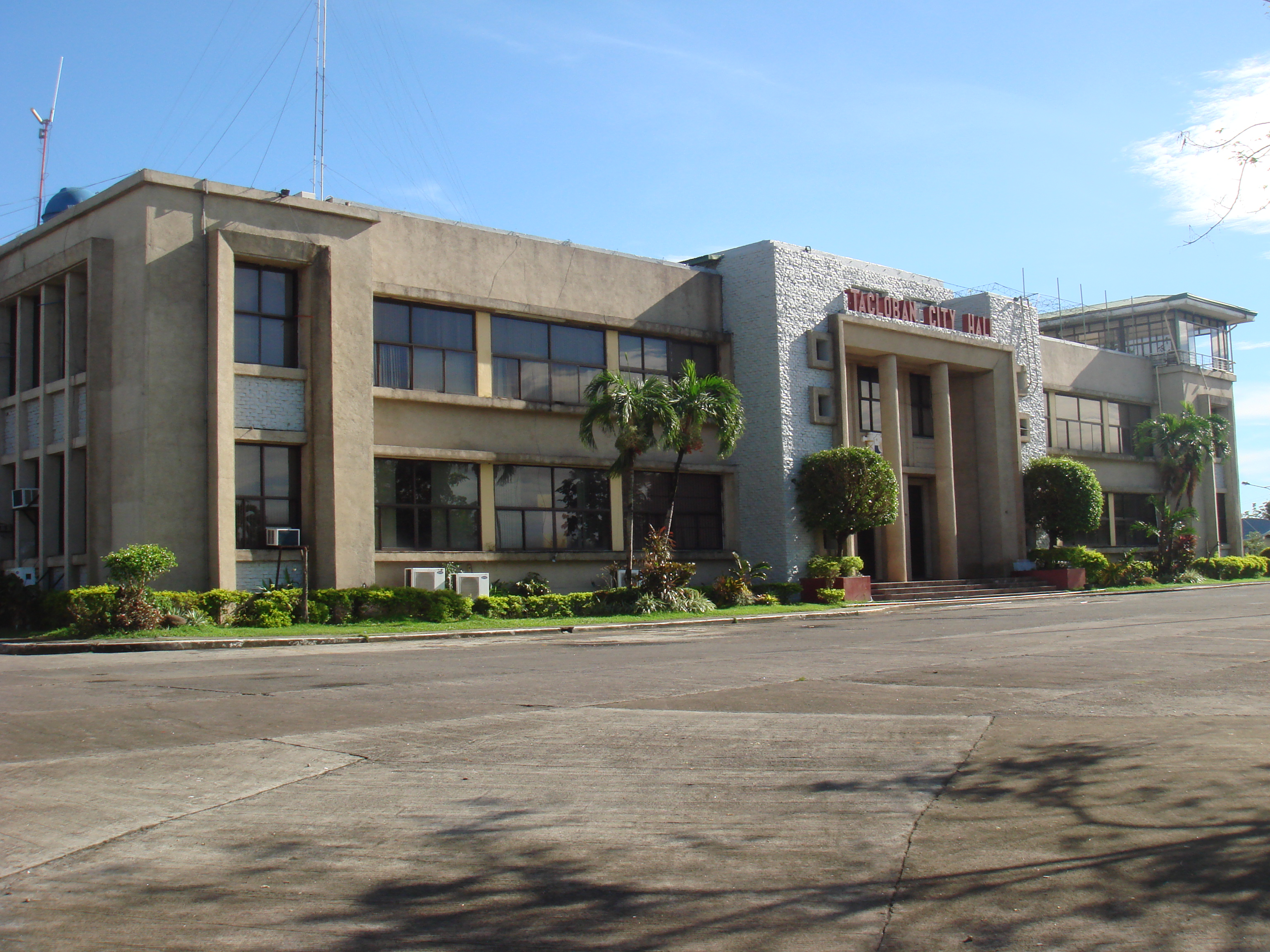 Tacloban City Hall - sitting on top of Kanhuraw Hill. The City of Tacloban (Waray: Siyudad han Tacloban , Tagalog: Lungsod ng Tacloban , Cebuano: Dakbayan sa Tacloban, simplified